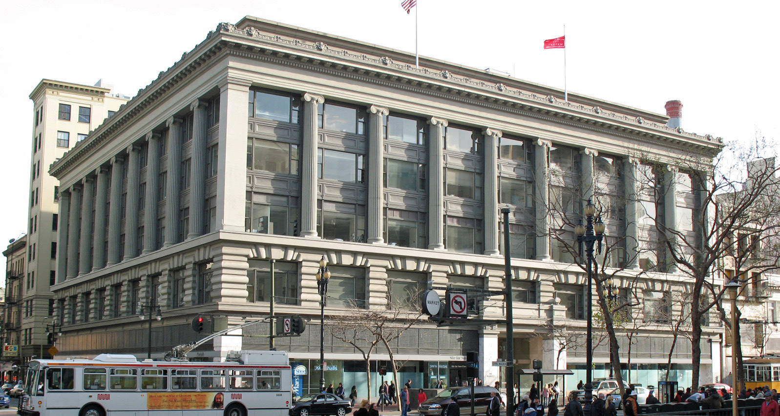 National Register of Historic Places in San Francisco, California. Hale Brothers Department Store, 901 Market St., San Francisco, California, USA. Photographed March 1, 2008 by Mike Hofmann from east side of Cyril Magnin St. next to Hallidie Plaza.